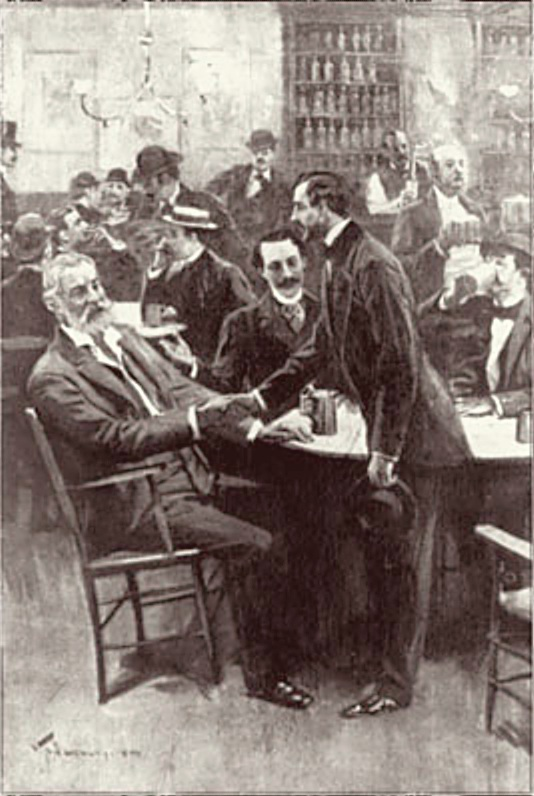 Pfaff's, New York City, with Walt Whitman, seated, in foreground, 1857